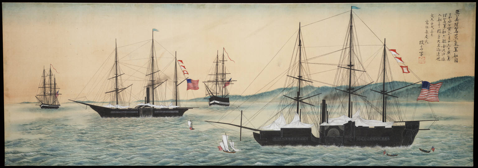 United States East India Squadron in Tokyo Bay